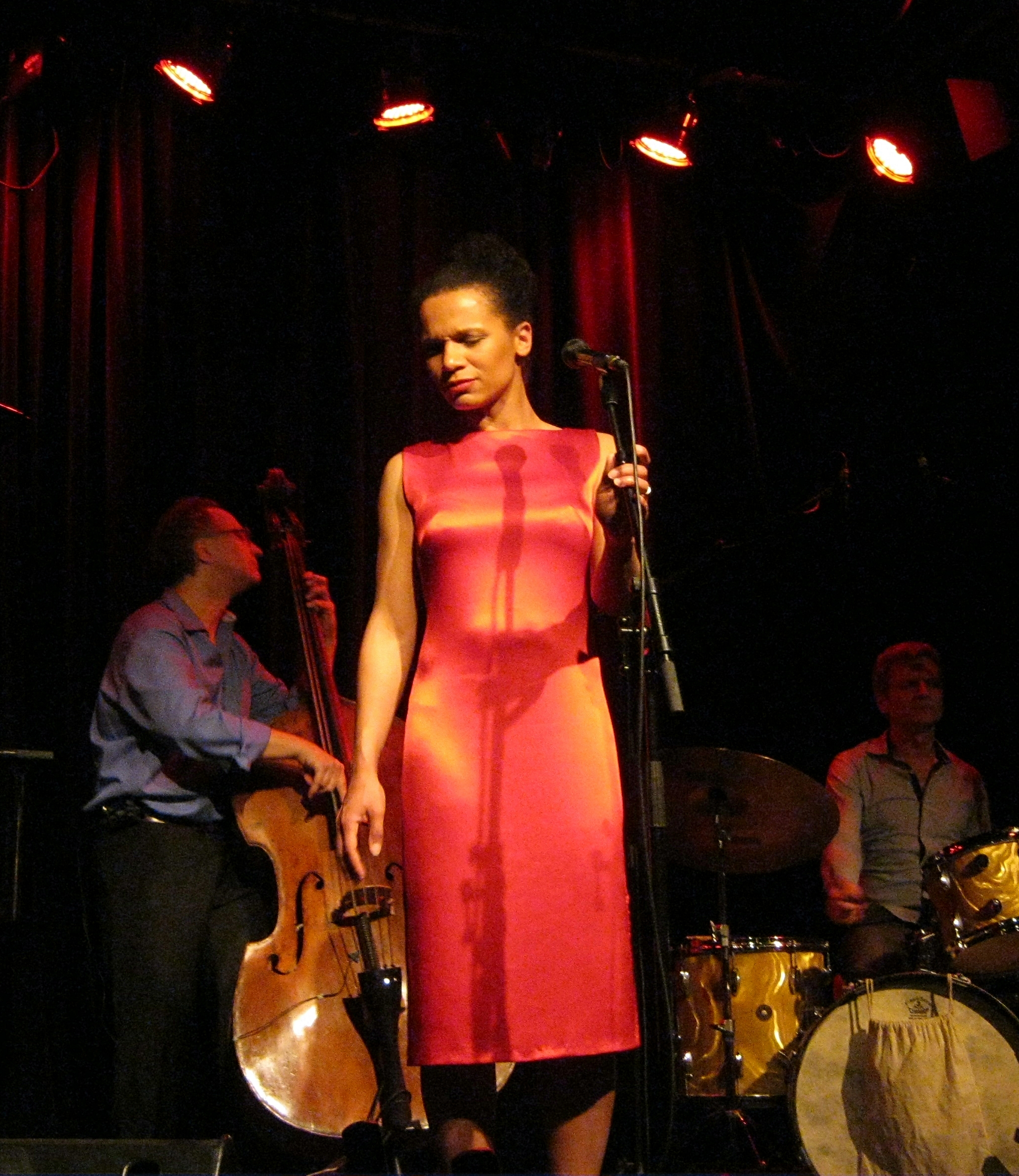 Lyambiko in concert